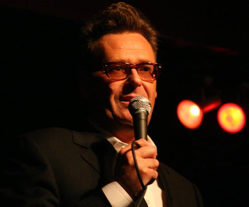 Greg Proops is an American stand-up comedian, actor, voice actor, and producer. He is best known for his improvisational work on the UK and U.S. versions of Whose Line Is It Anyway?